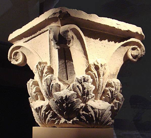 Ai Khanoum capital, 2nd century BCE. Guimet Museum. Personal photograph 2006.